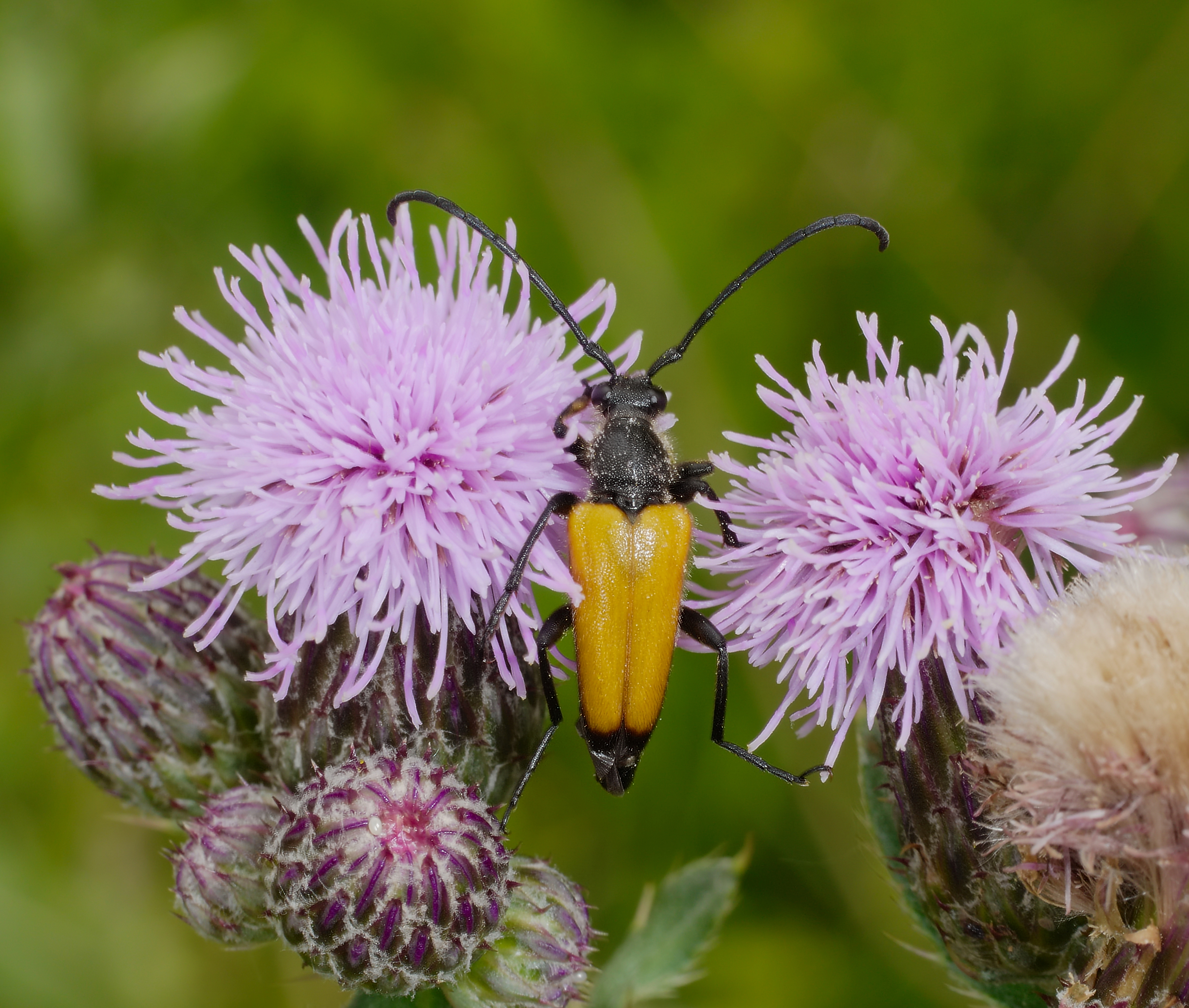 Corymbia fulva (Synonyms: Leptura fulva, Brachyleptura fulva, Stictoleptura fulva und Paracorymbia fulva). Taken in Mannheim in Rheinau (Pfingstberg), Baden-Württemberg, Germany.